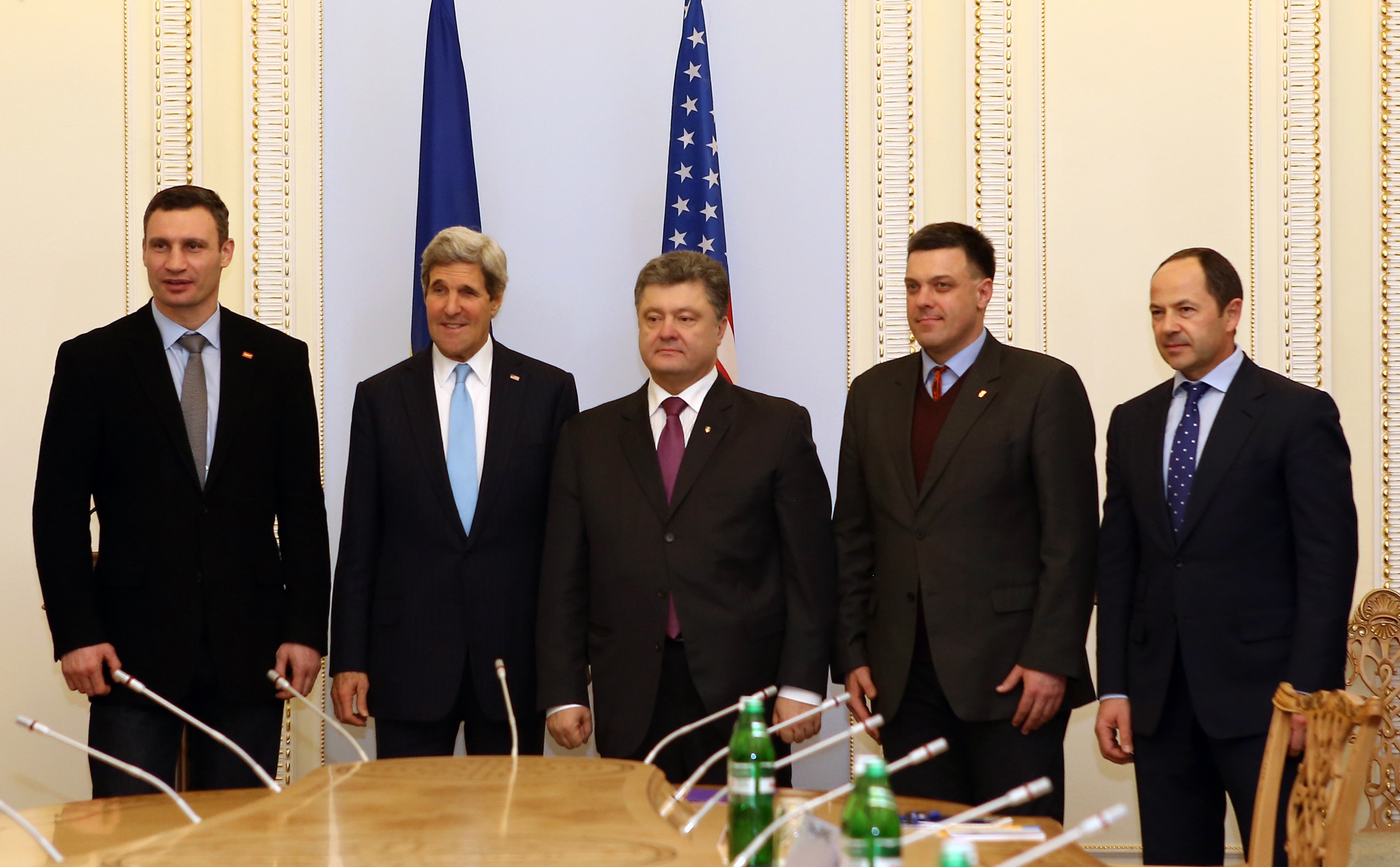 U.S. Secretary of State John Kerry meets with Ukrainian Members of Parliament Vitali Klitschko, Petro Poroshenko, Oleh Tyahnybok, and Sergey Tigipko at the Verkhovna Rada in Kyiv, Ukraine, on March 4, 2014. [State Department photo/ Public Domain]